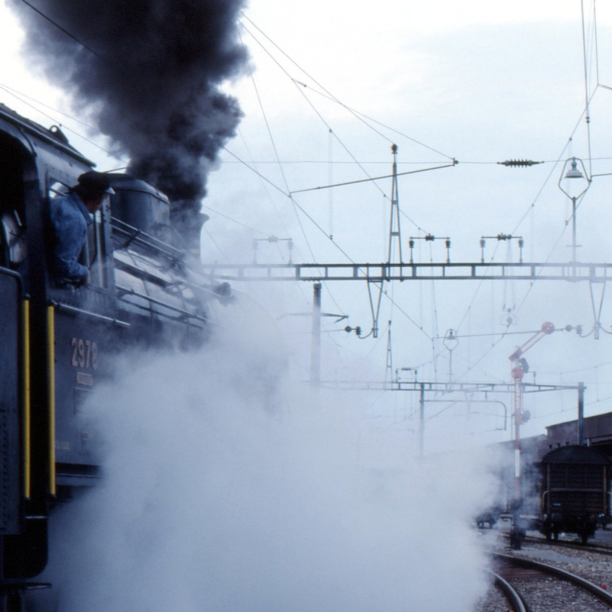 Steam C 5/6 2978 start in Thalheim-Altikon trip true the Winevalley(Weinland) Hey Steam in Switzerland